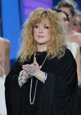 “Fashion designer Valentin Yudashkin presents Marine Collection”. Fashion designer Valentin Yudashkin, left, presenting hew new Marine Collection at the Grand Kremlin Palace. From right to left: singers Oleg Gazmanov, Alla Pugacheva and Kristina Orbakaite.